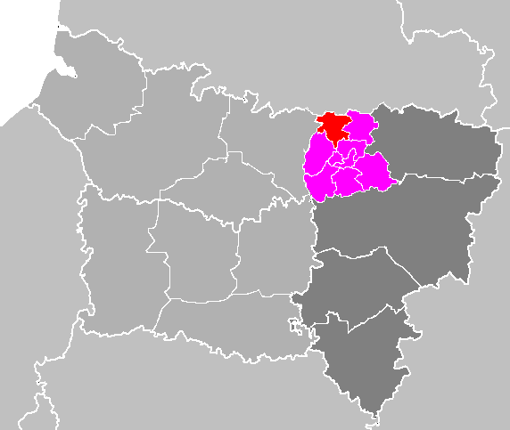 Maps of arrondissements and cantons of France